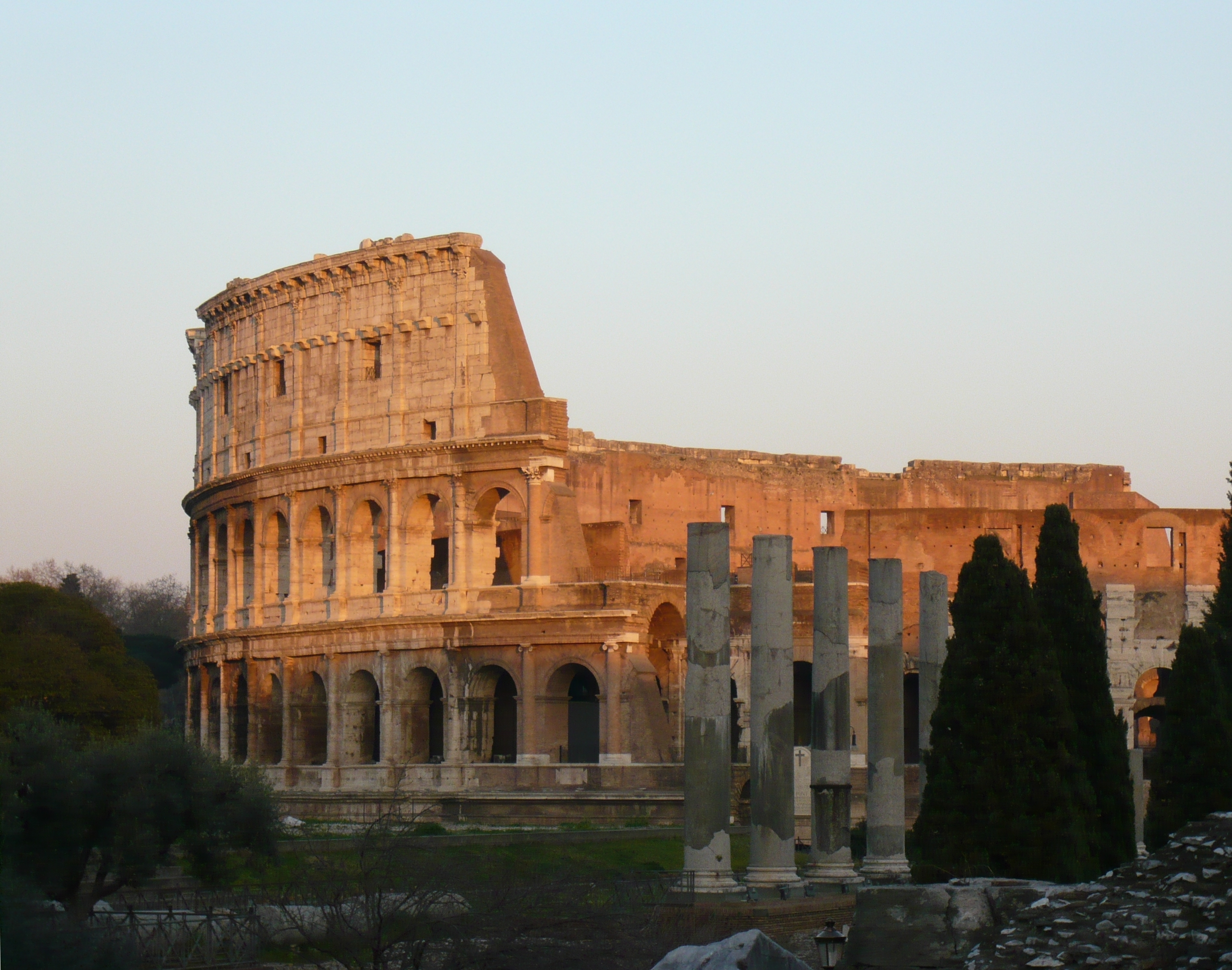 Colosseum.